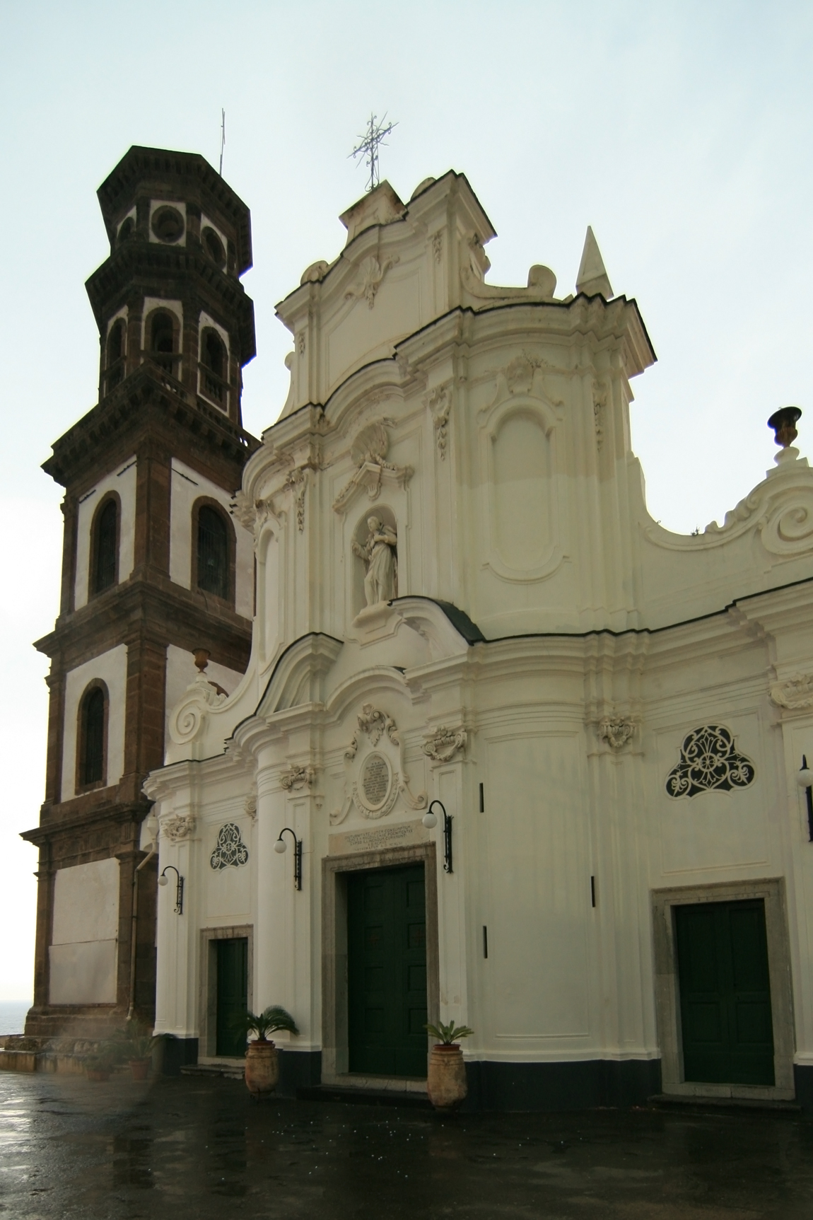 Church of Atrani, Amalfi, Italy.